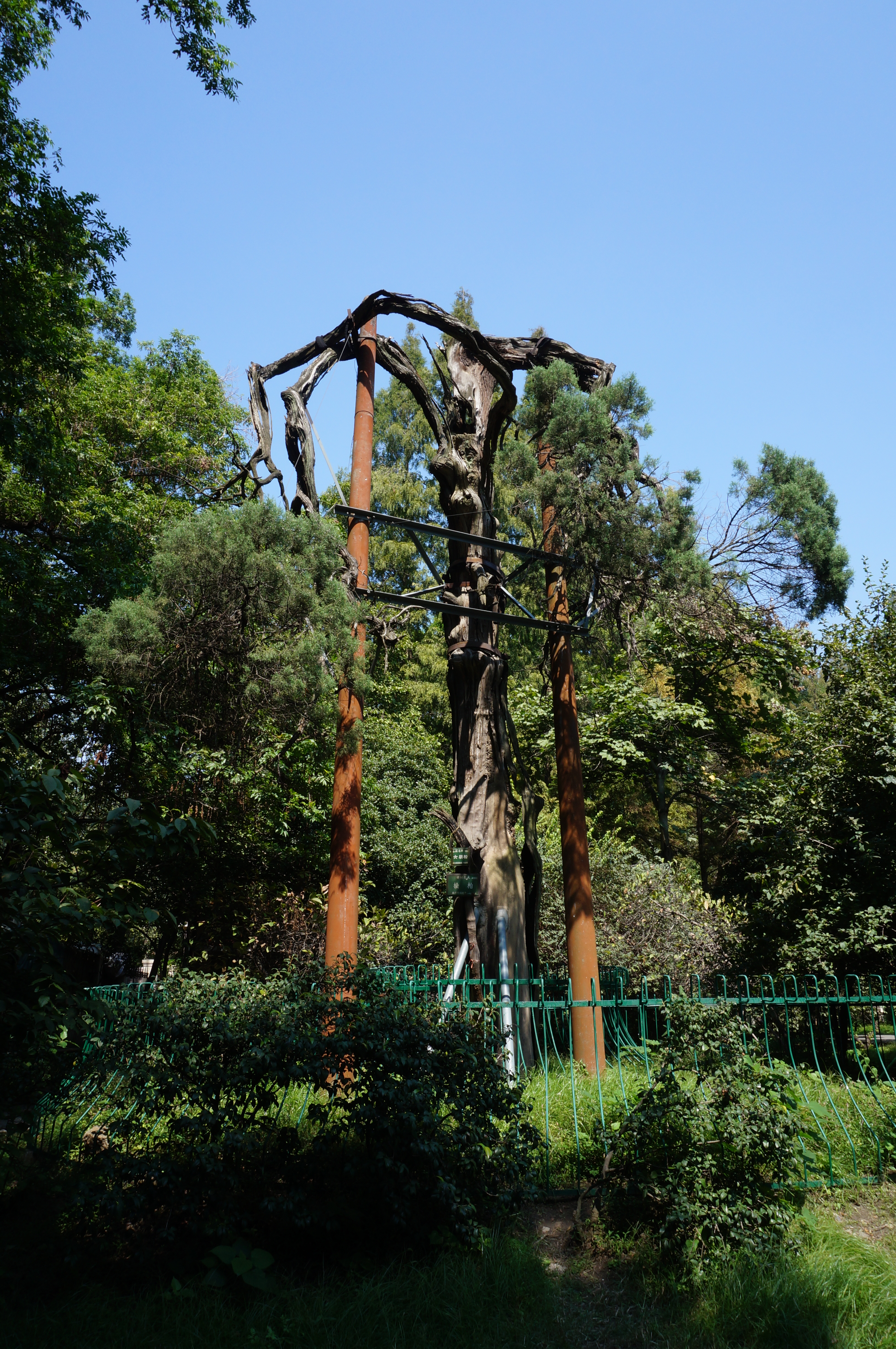 2013年10月1日——东南大学，六朝松